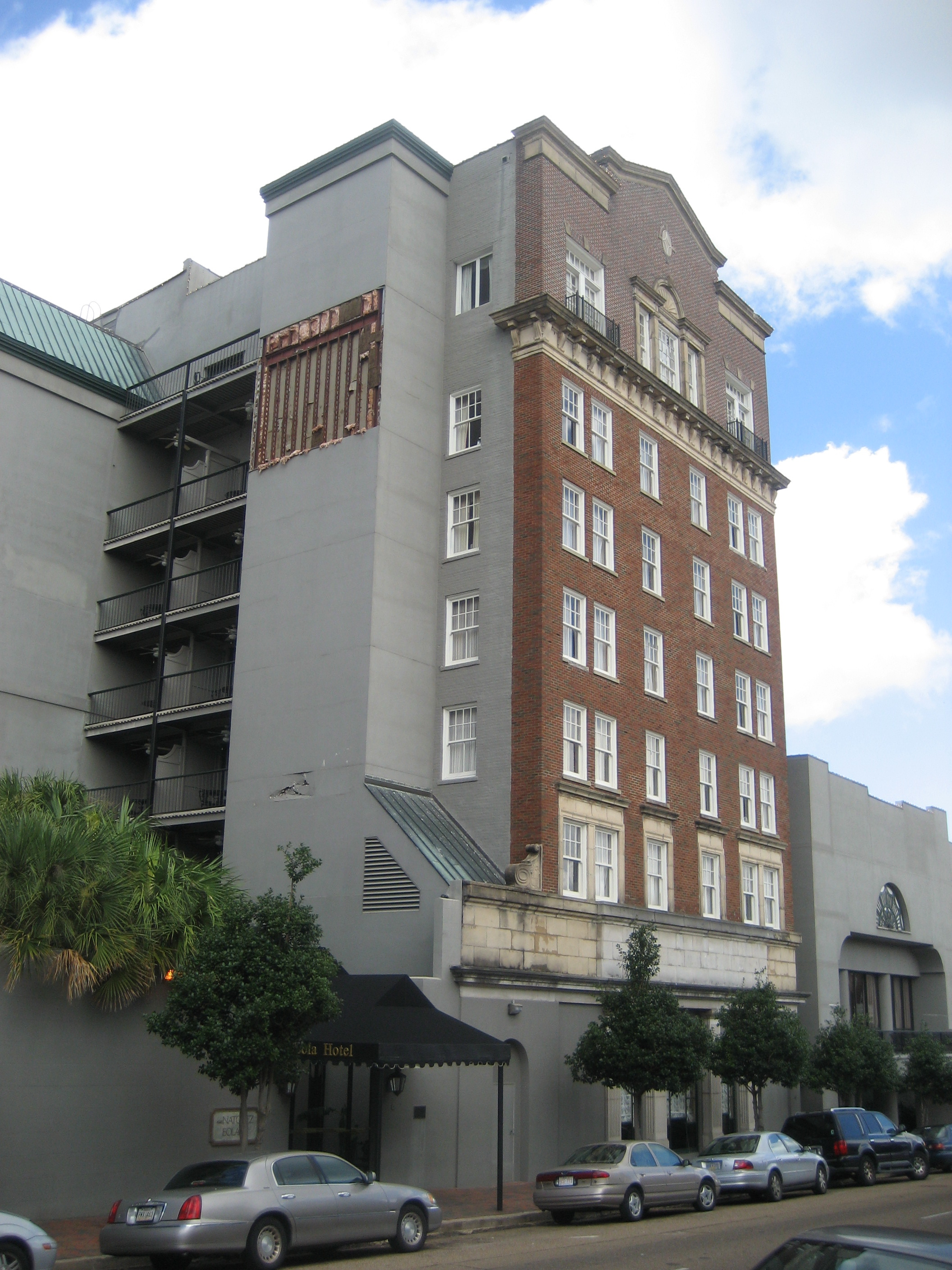 Natchez, Mississippi. View of the Eola Hotel showing damage from Hurricane Gustav.